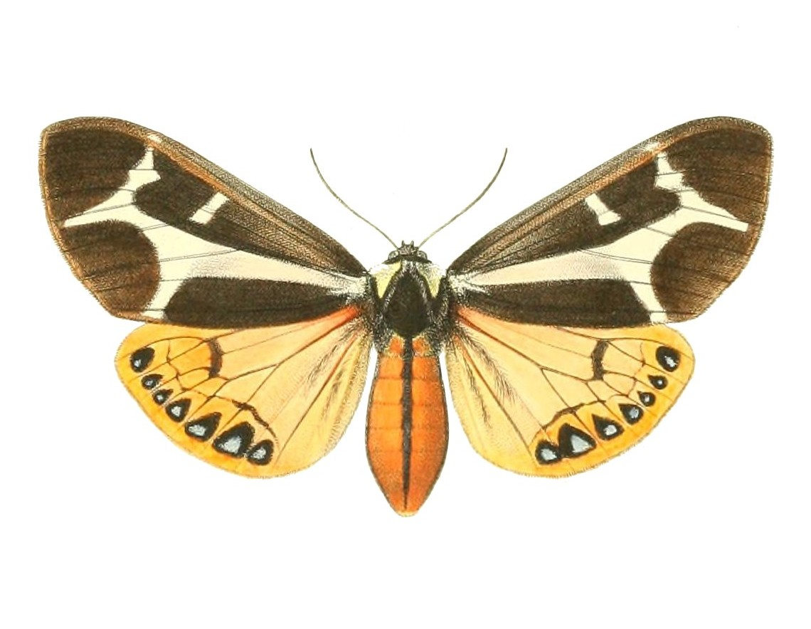 Euprepia thetis = Dysschema mariamne